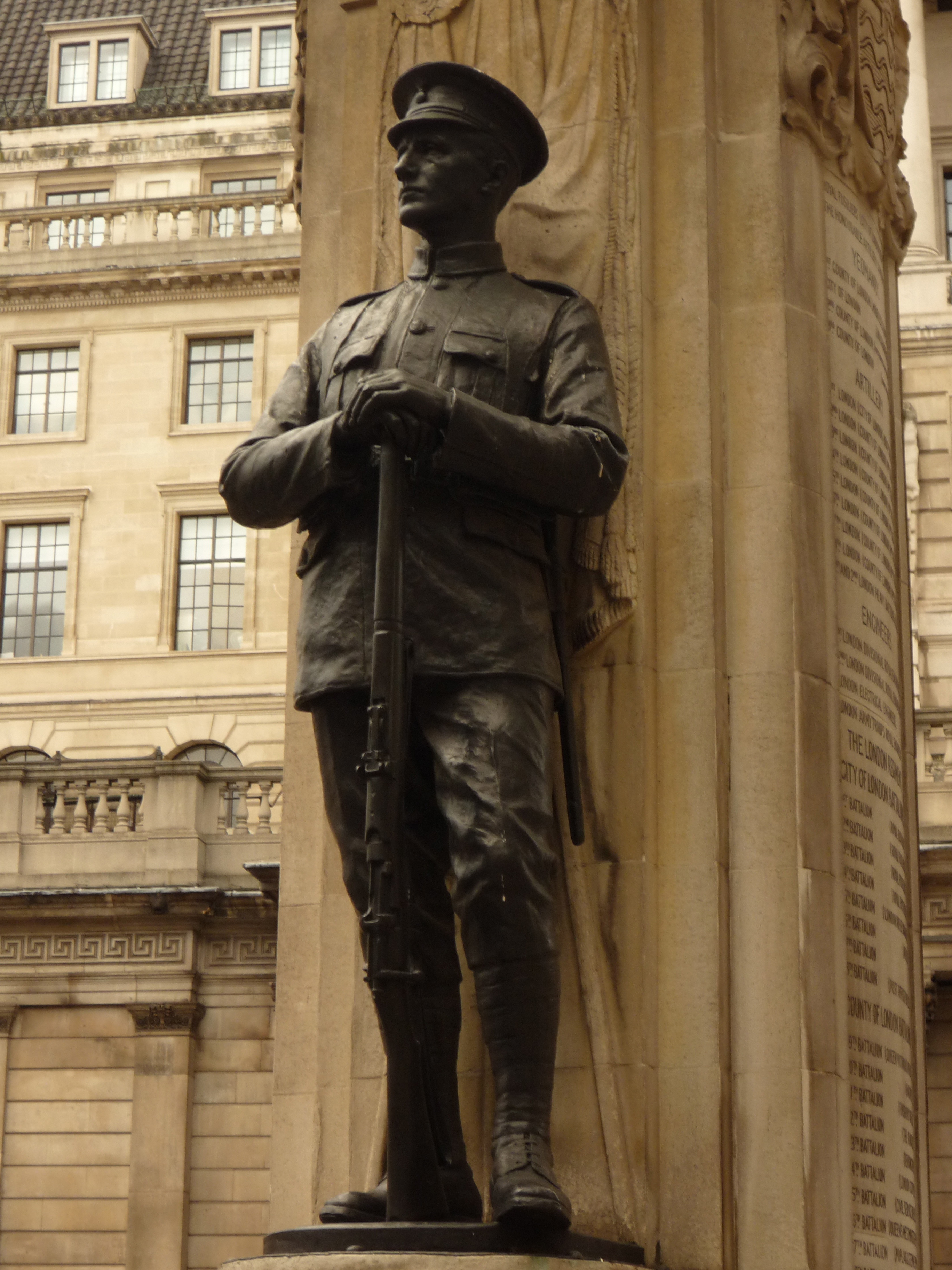 British infantryman of World War I depicted on the south side of the London Troops memorial at the Royal Exchange, London, sculpted by Alfred Drury.